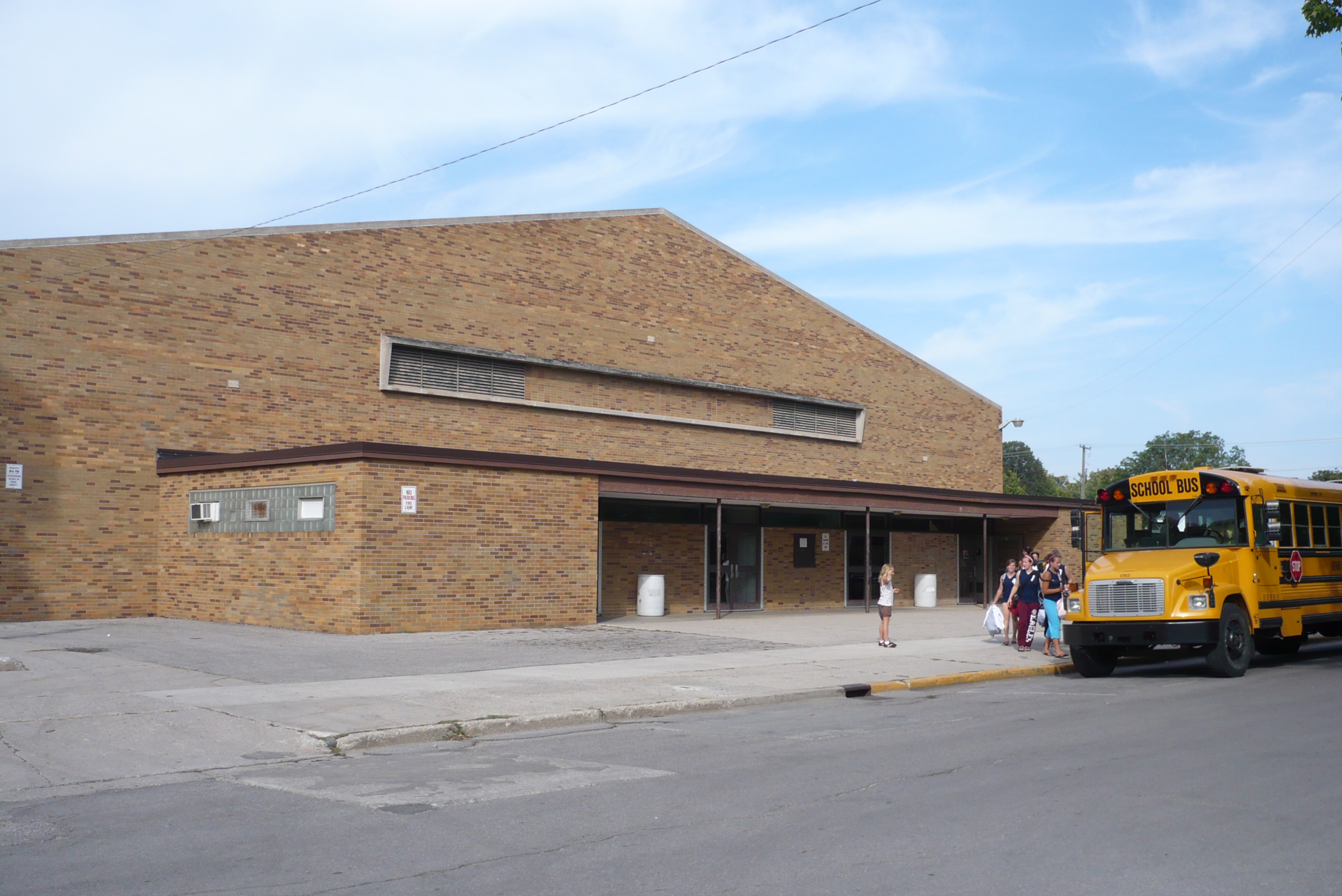 Saint Francis Highschool